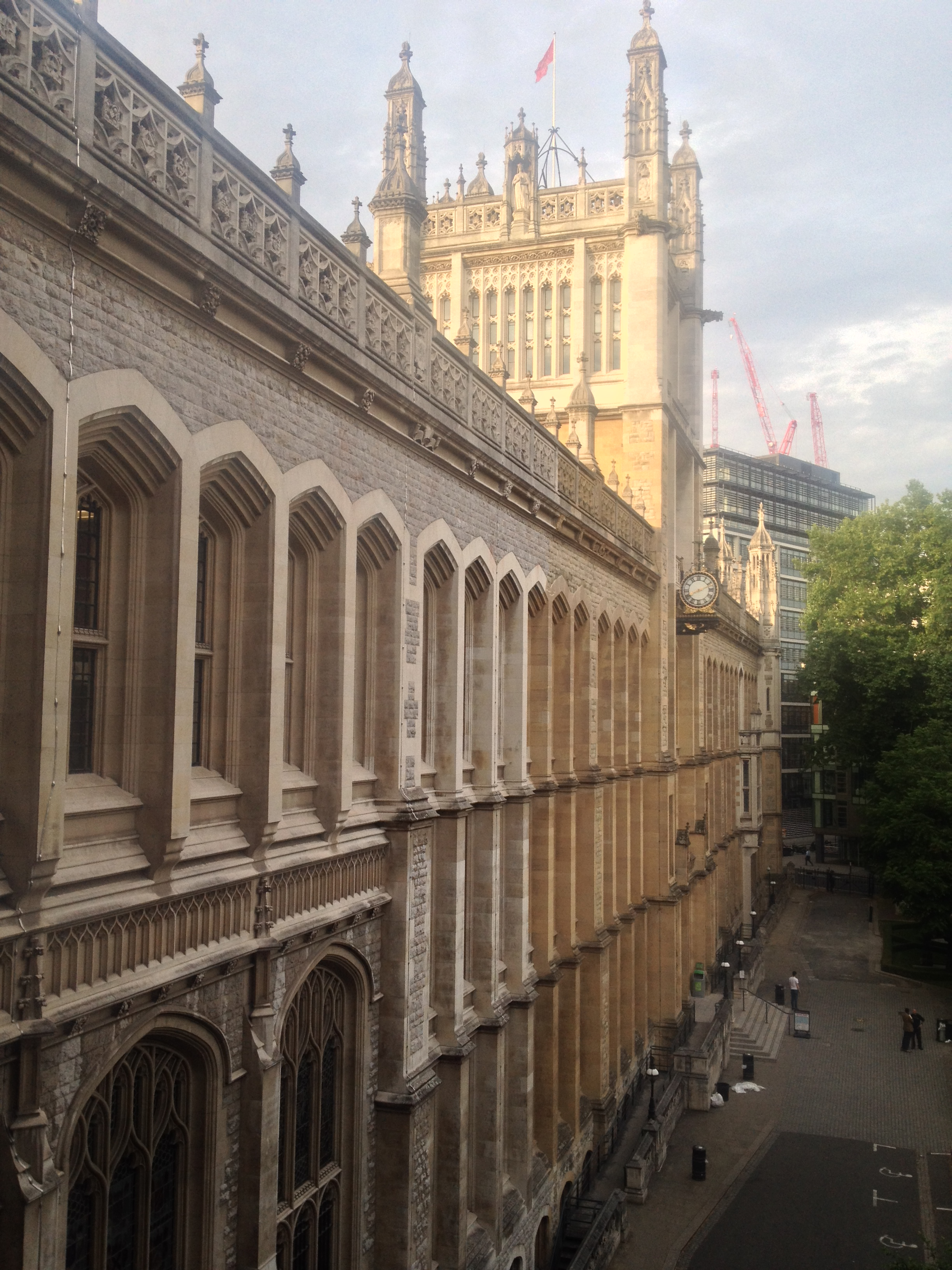 Maughan Library, the biggest library of King's College London, is also the biggest library in the UK post World War II.